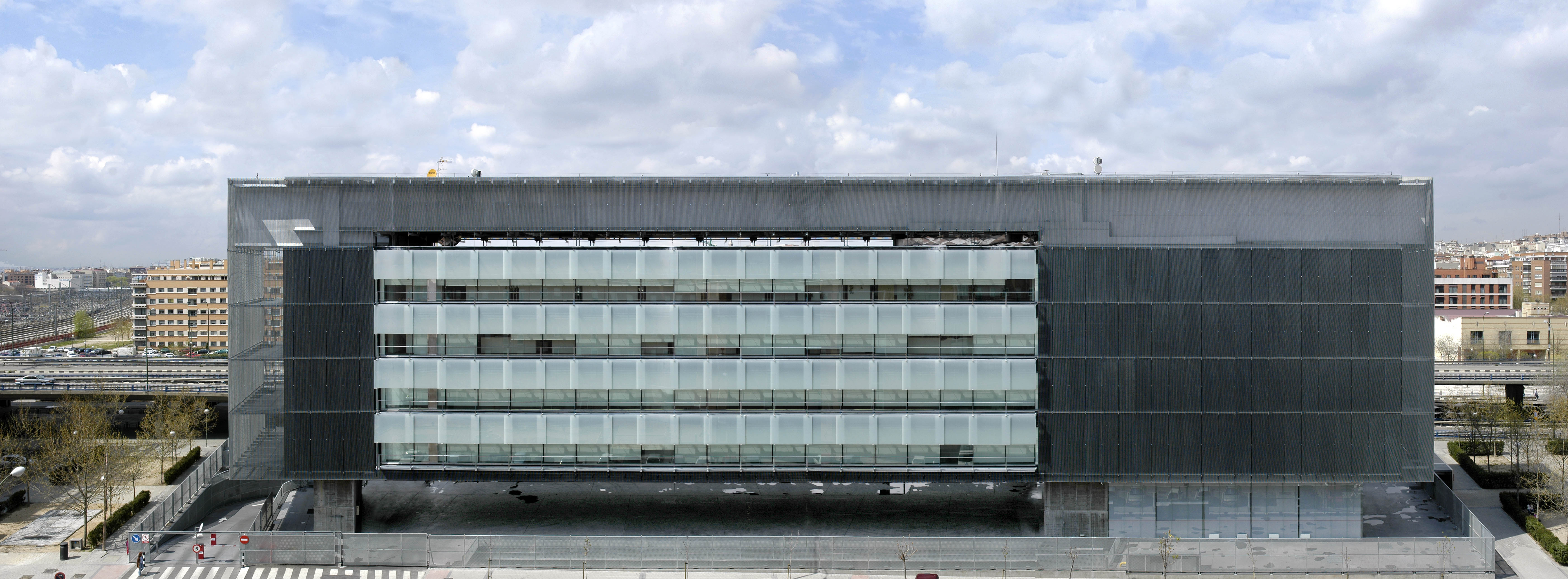 South-east façade of the headquarters of E.M.T. Madrid (Spain).